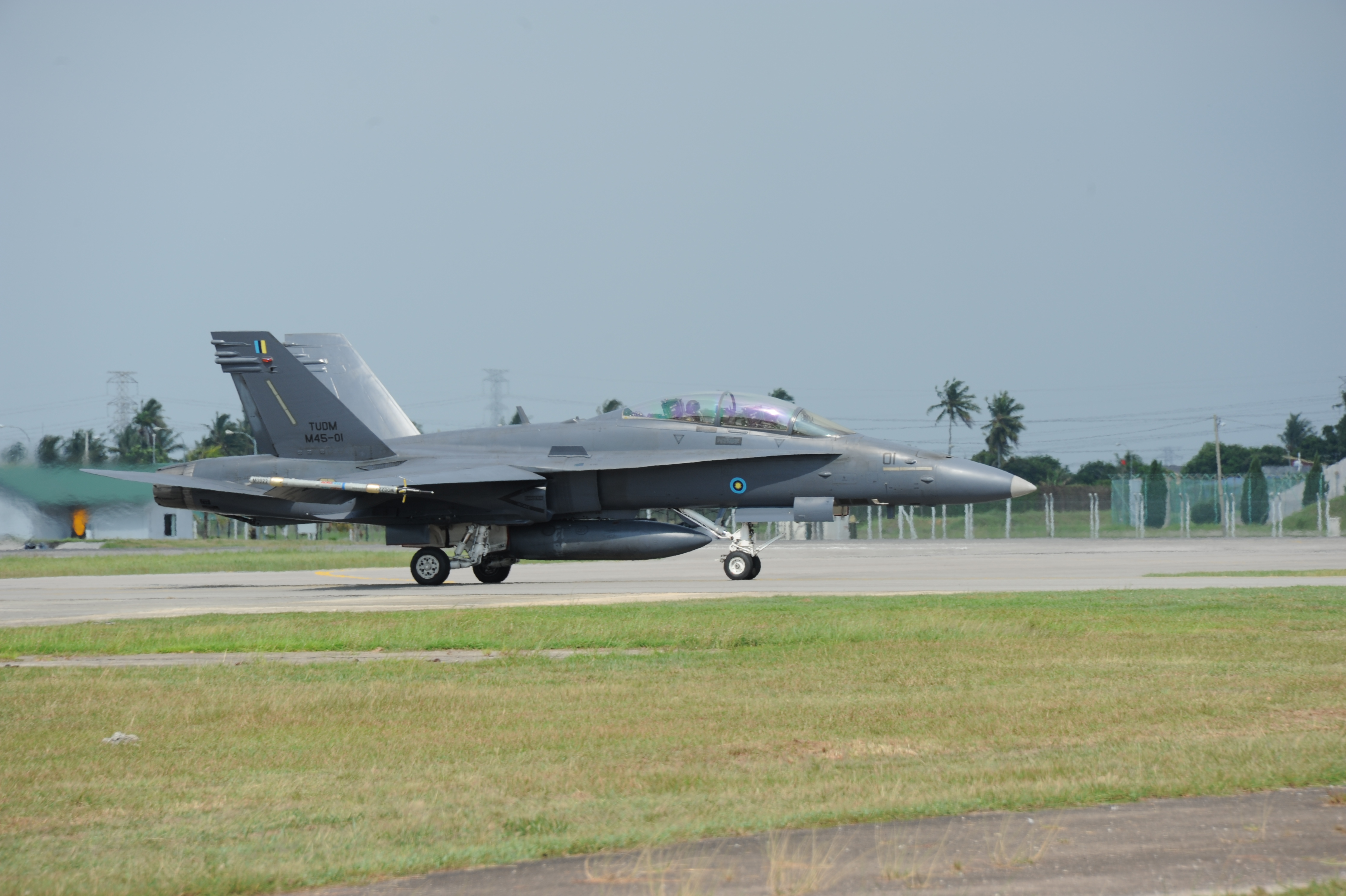 A Royal Malaysian Air Force F/A-18D taxis to the end of the runway during Cope Taufan 2012 at TUDM Butterworth in northwestern Malaysia Apr. 4, 2012. Cope Taufan, the biennial live-flying exercise between the U.S. Air Force and RMAF, includes dissimilar basic fighter maneuvers and dissimilar air combat tactics training. (U.S. Air Force photo/Master Sgt. Matt Summers/released)